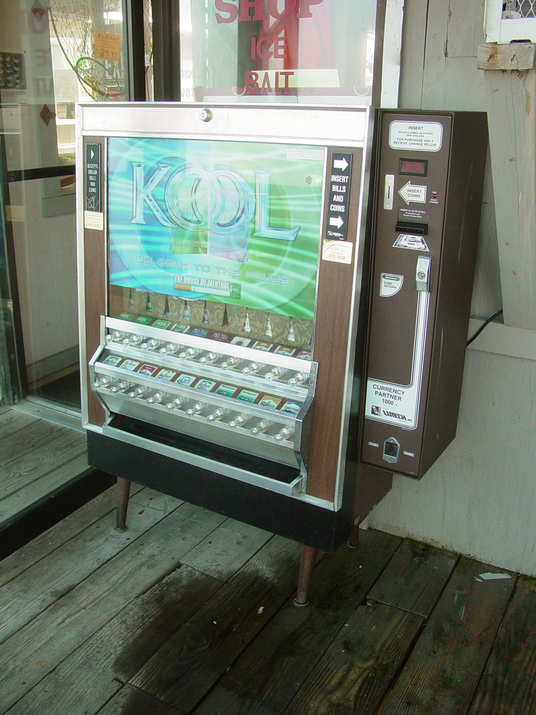 A cigarette vending machine at the fishing pier in Virginia Beach, Virginia. Photo by Ben Schumin on August 11, 2004.